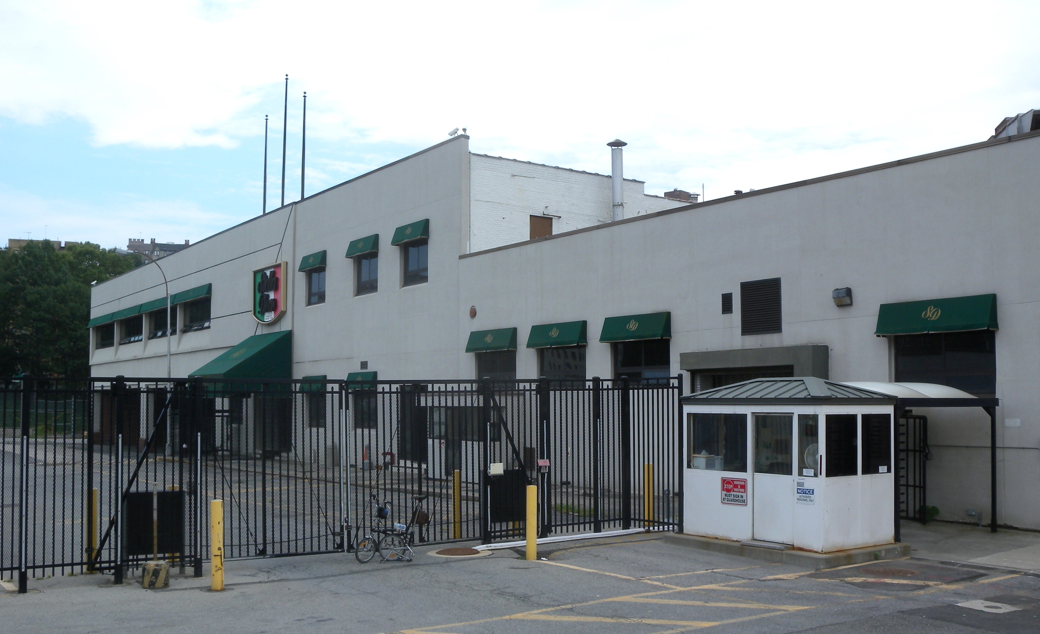 Looking southeast at closed Broadway north gate of Stella D'Oro on a cloudy afternoon. The building was demolished in 2012.